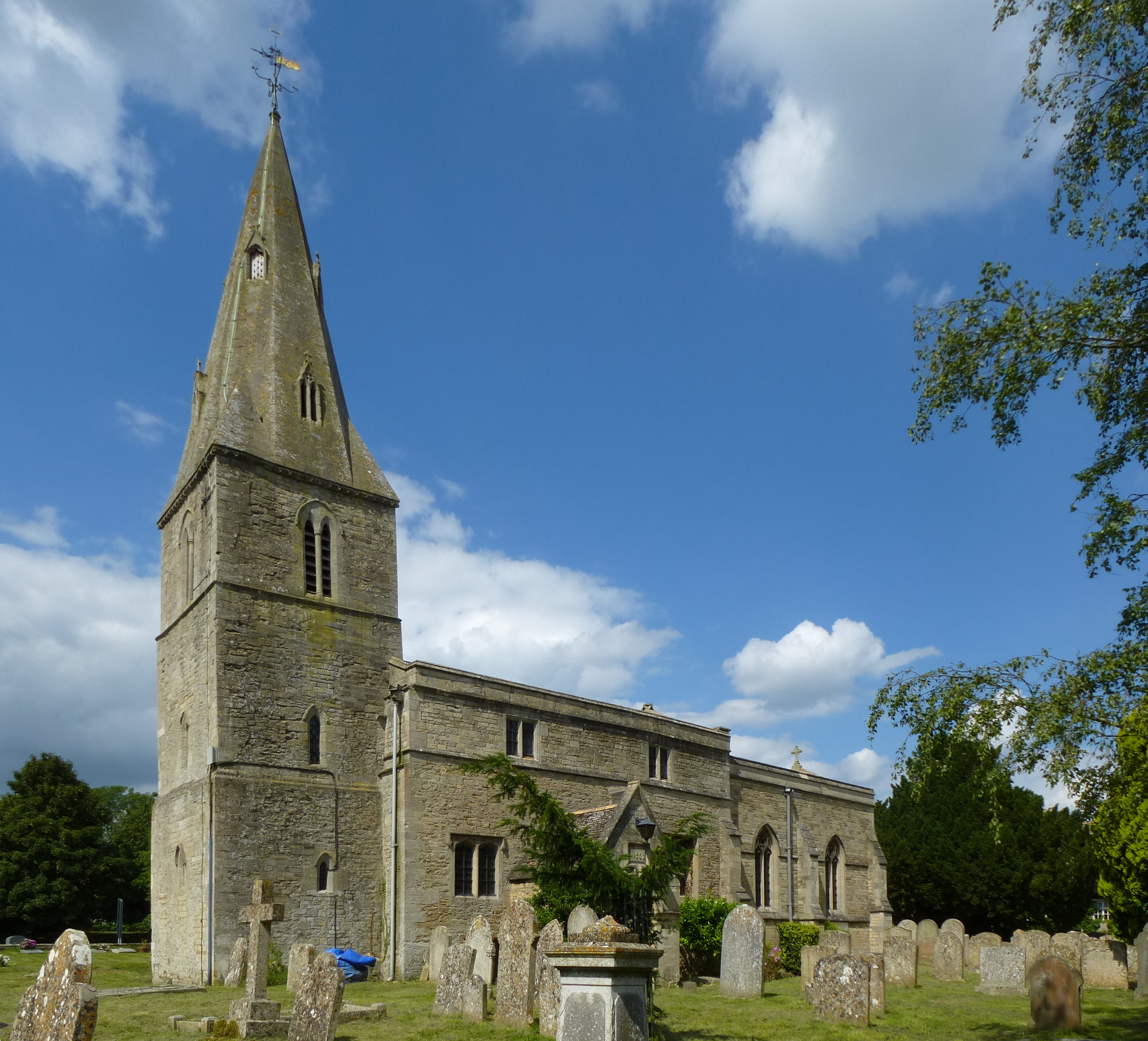 Church of England parish church of St Mary the Virgin, Wansford, Cambridgeshire, seen from the southwest